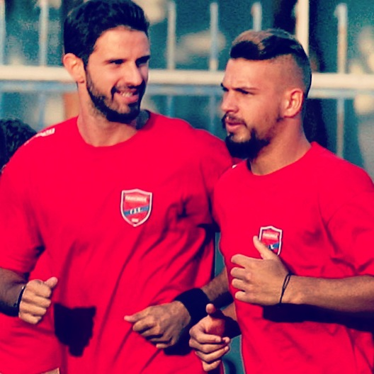 stelios koxarakis